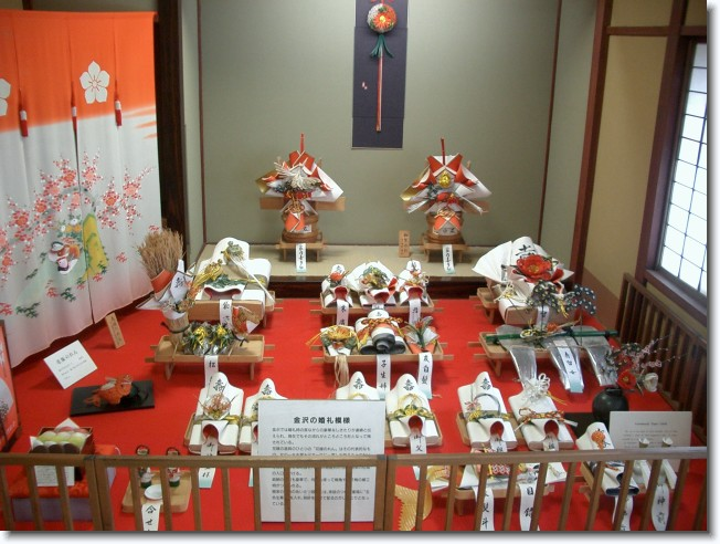 Decorative gift wrapping knots. Exhibition of local traditional products at Shinise Kinonkan, Nagamichi District. More photos from Kanazawa: Decorative gift wrapping knots